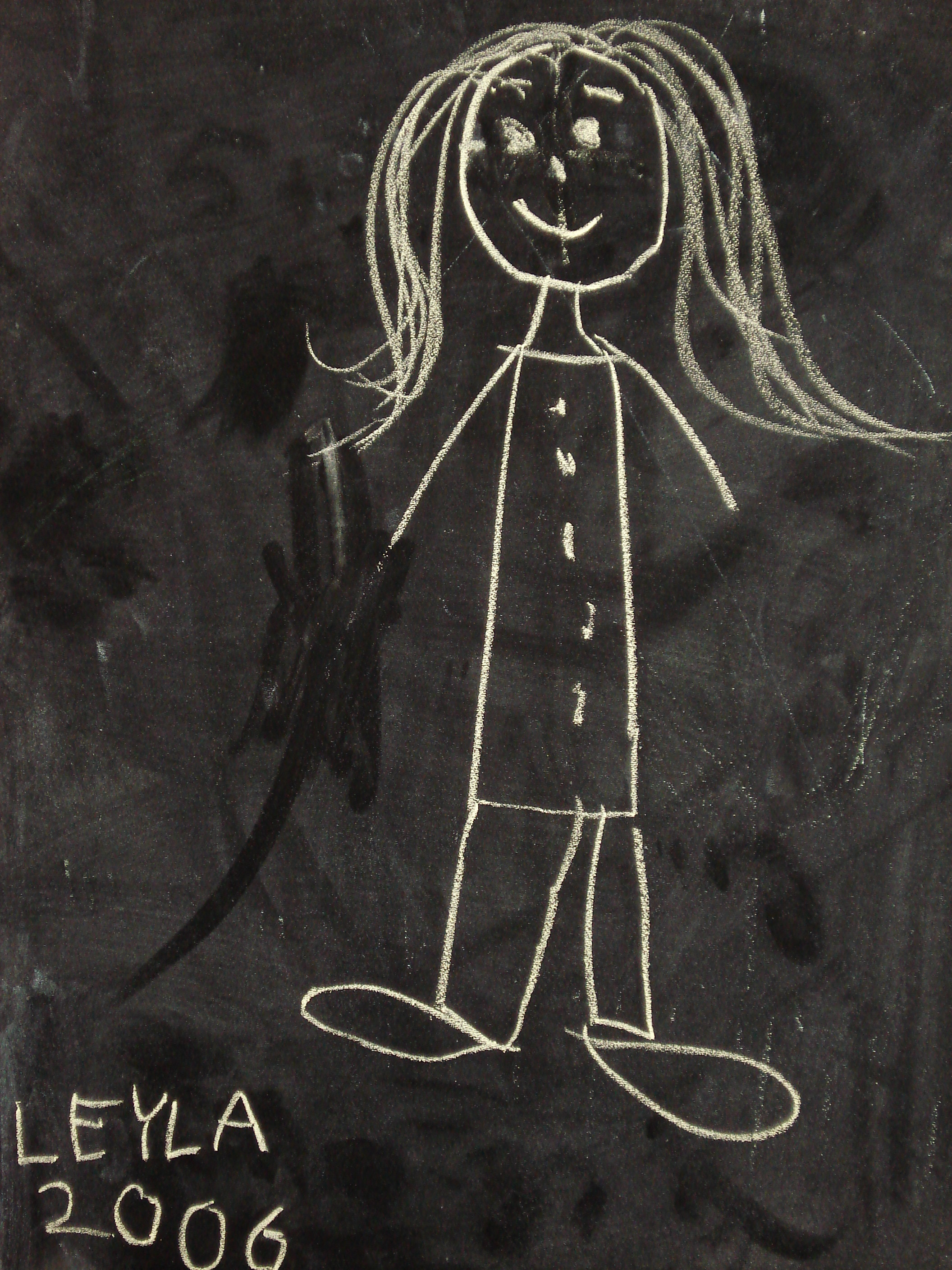 Blackboard